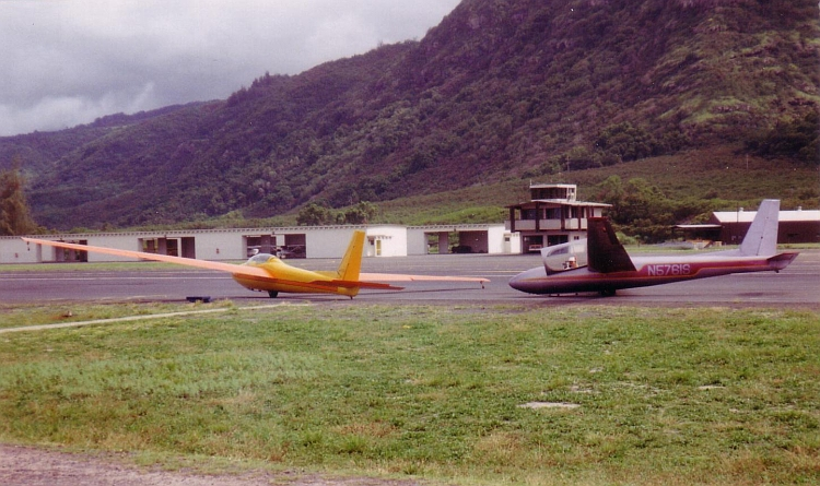 I took this photo on Oahu HI in 1993.